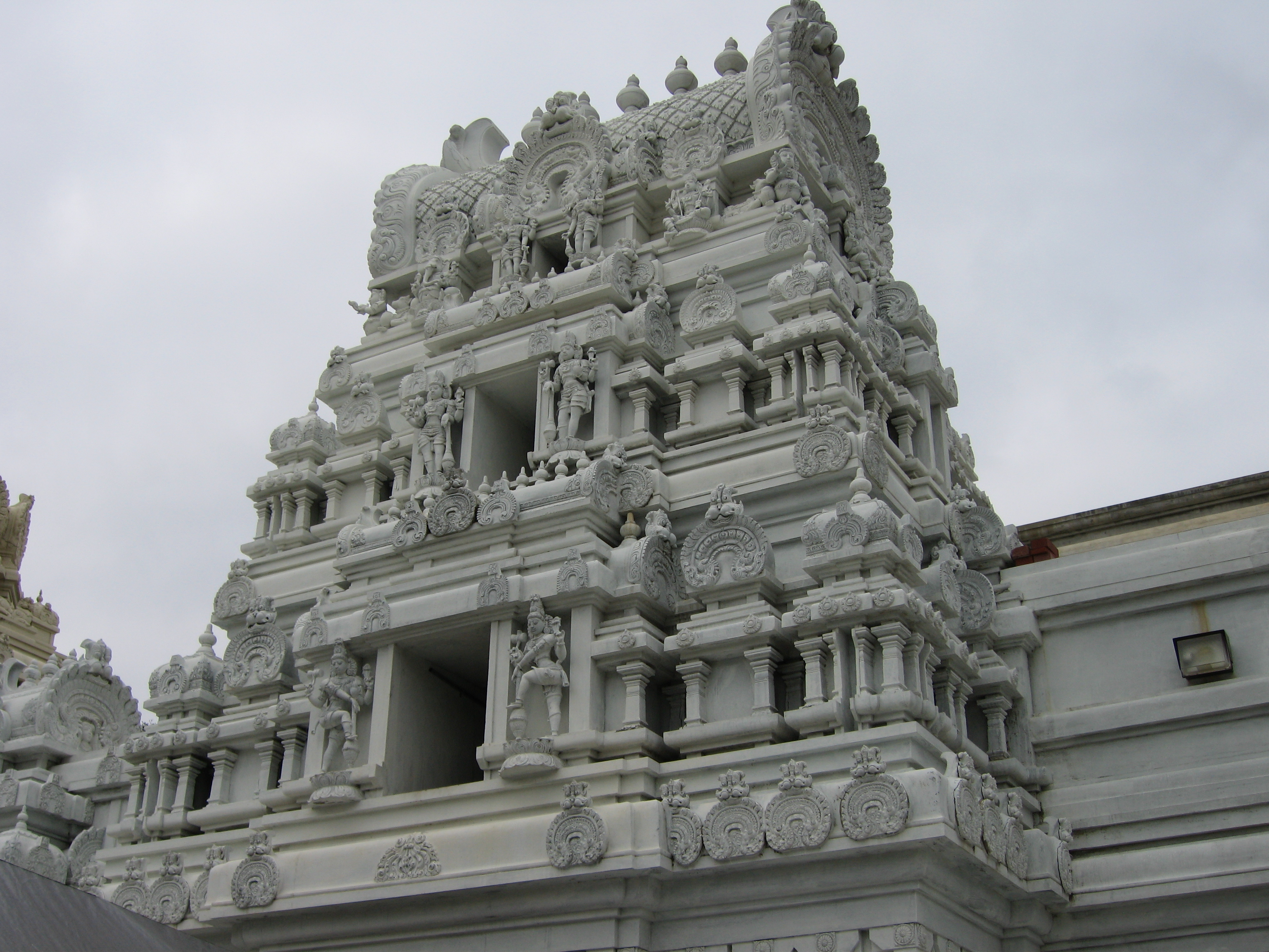 The Hindu Temple at Malibu, California.